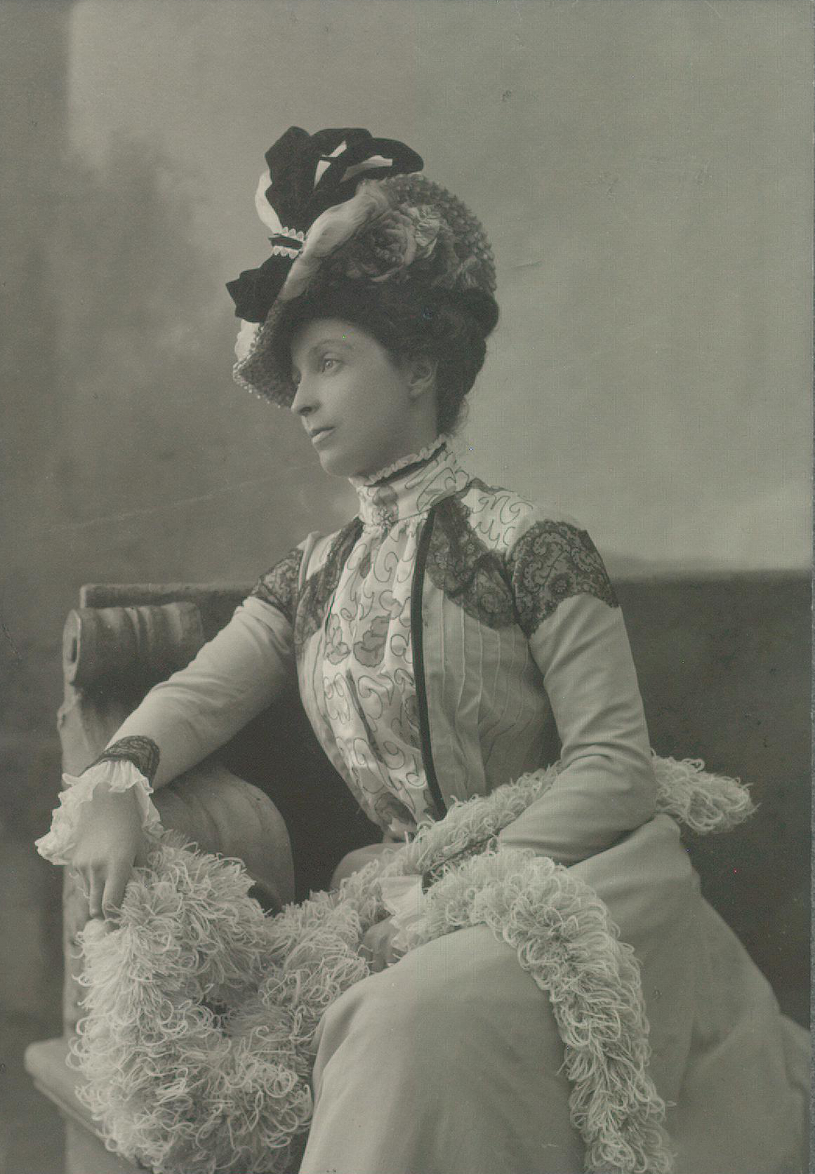 Record no: Ms Coll 450 Box 1/folder 29 Title: Canadian Women Authors Creator: Wadds Brothers, Vancouver & Nelson, B.C. Date: [1898-1905] Image description: Image depicts Julia Wilmotte Henshaw (1868-1937), née Henderson, who married Charles Grant Henshaw in 1887. She was a novelist, journalist—working initially as an arts critic— amateur geographer, and botanist. Extent: 225 x 175 mm Format: Photograph Rights info: No known restrictions on access Repository: Thomas Fisher Rare Book Library, University of Toronto, Toronto, Ontario Canada, M5S 1A5